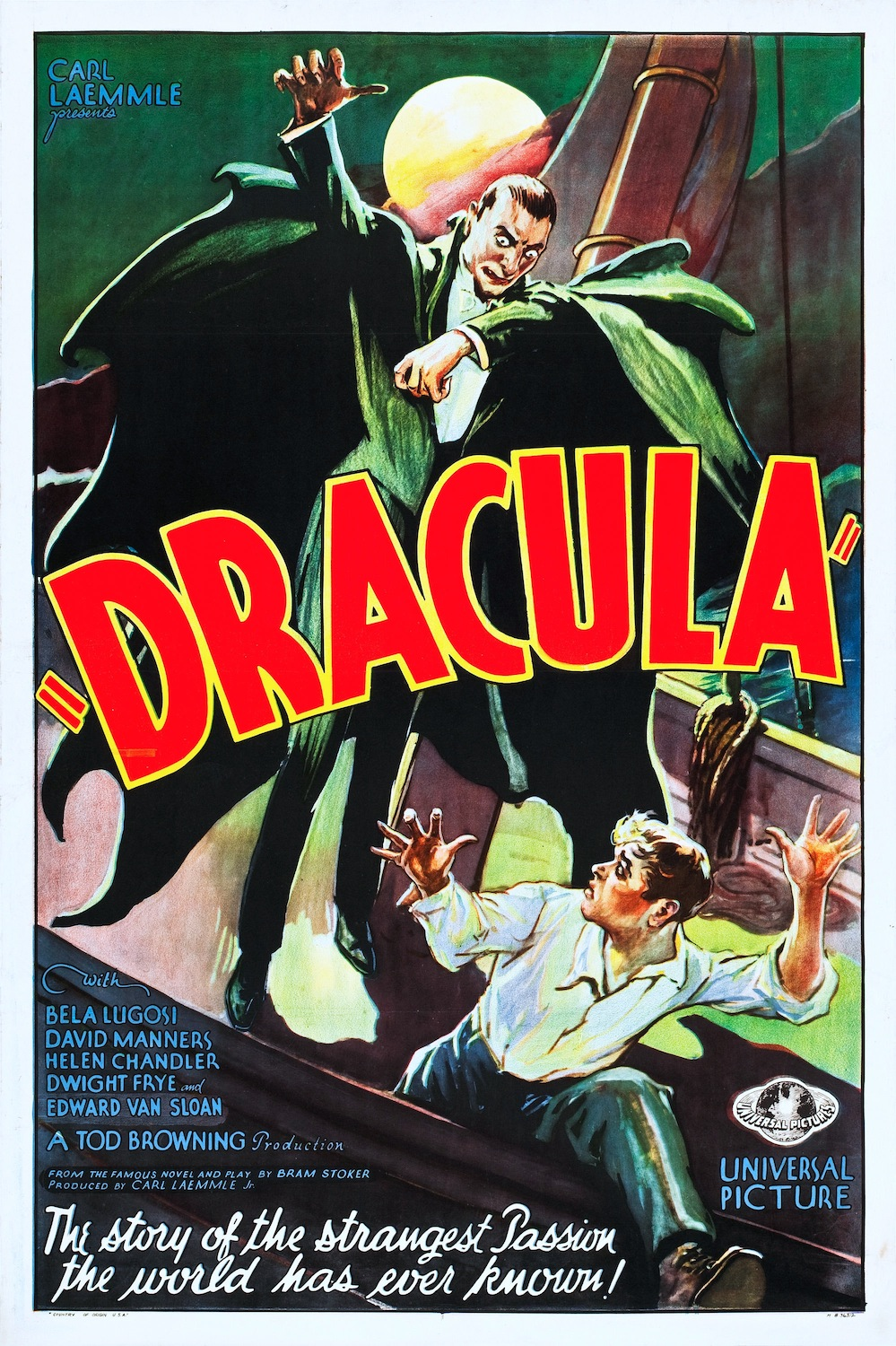 This is the 1931 one sheet movie poster, Style F